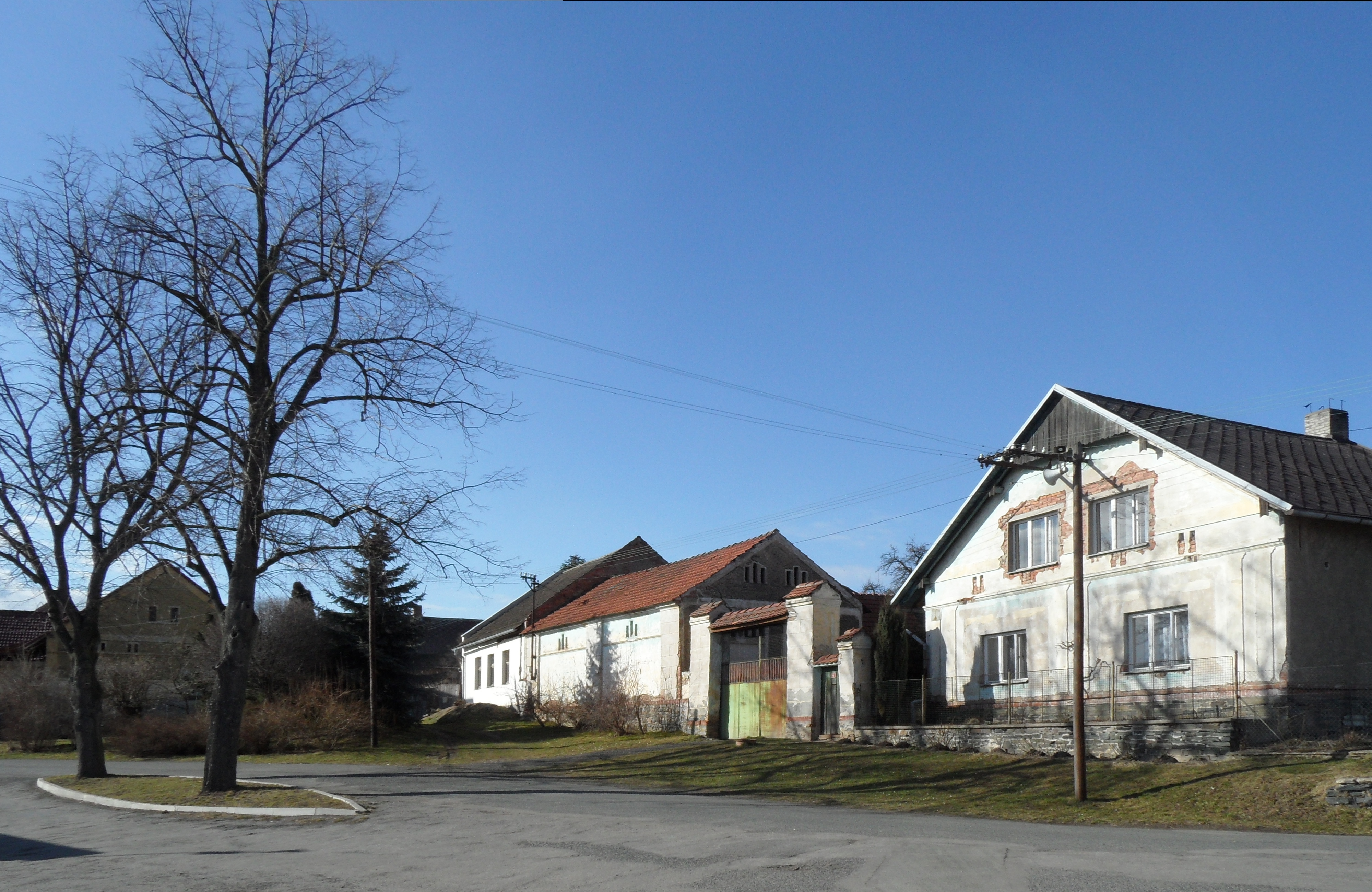 Okřesaneč F. Houses not far from Church, Kutná Hora District, the Czech Republic.